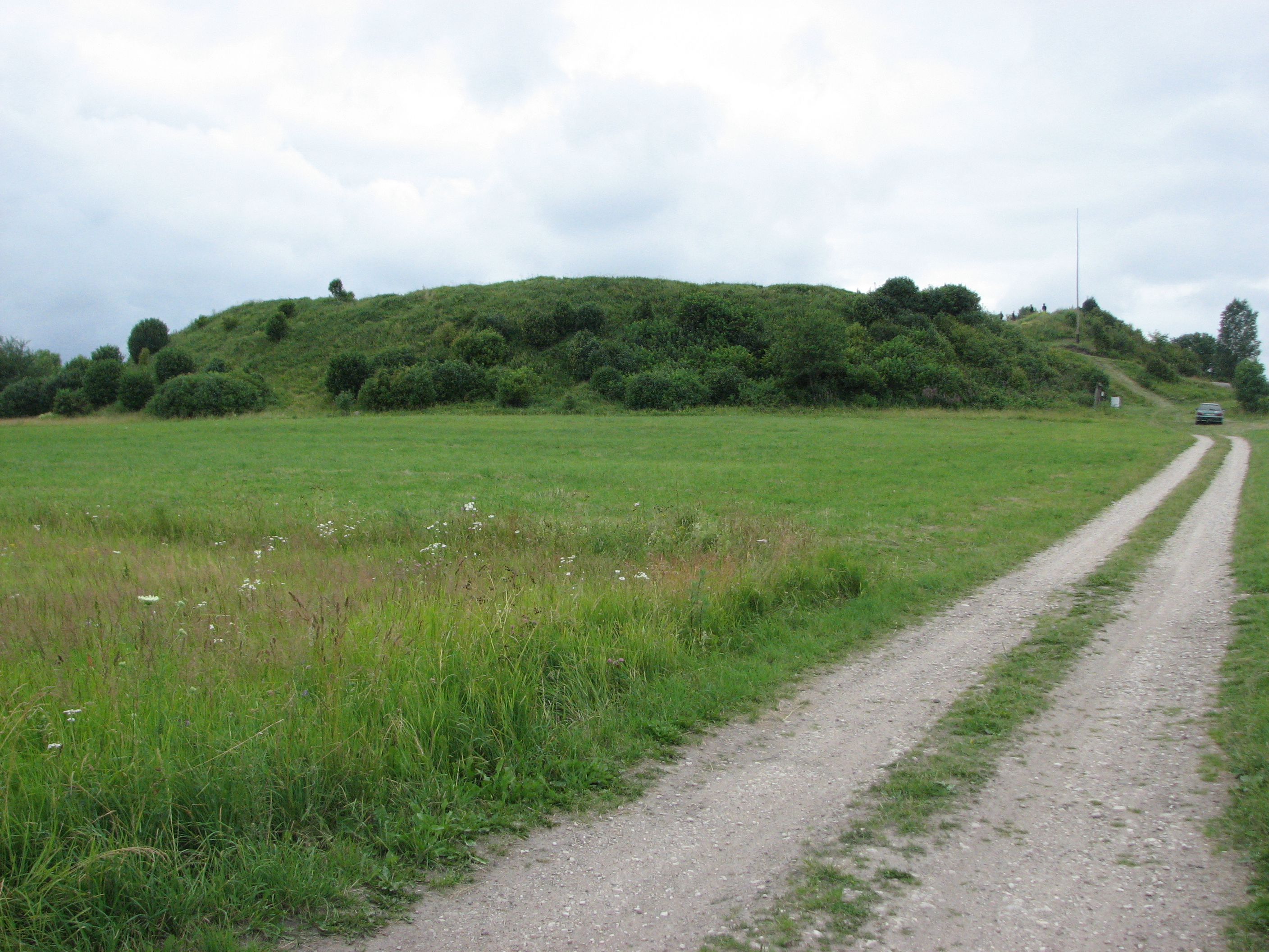 Pöide forthill, Saaremaa, Estonia